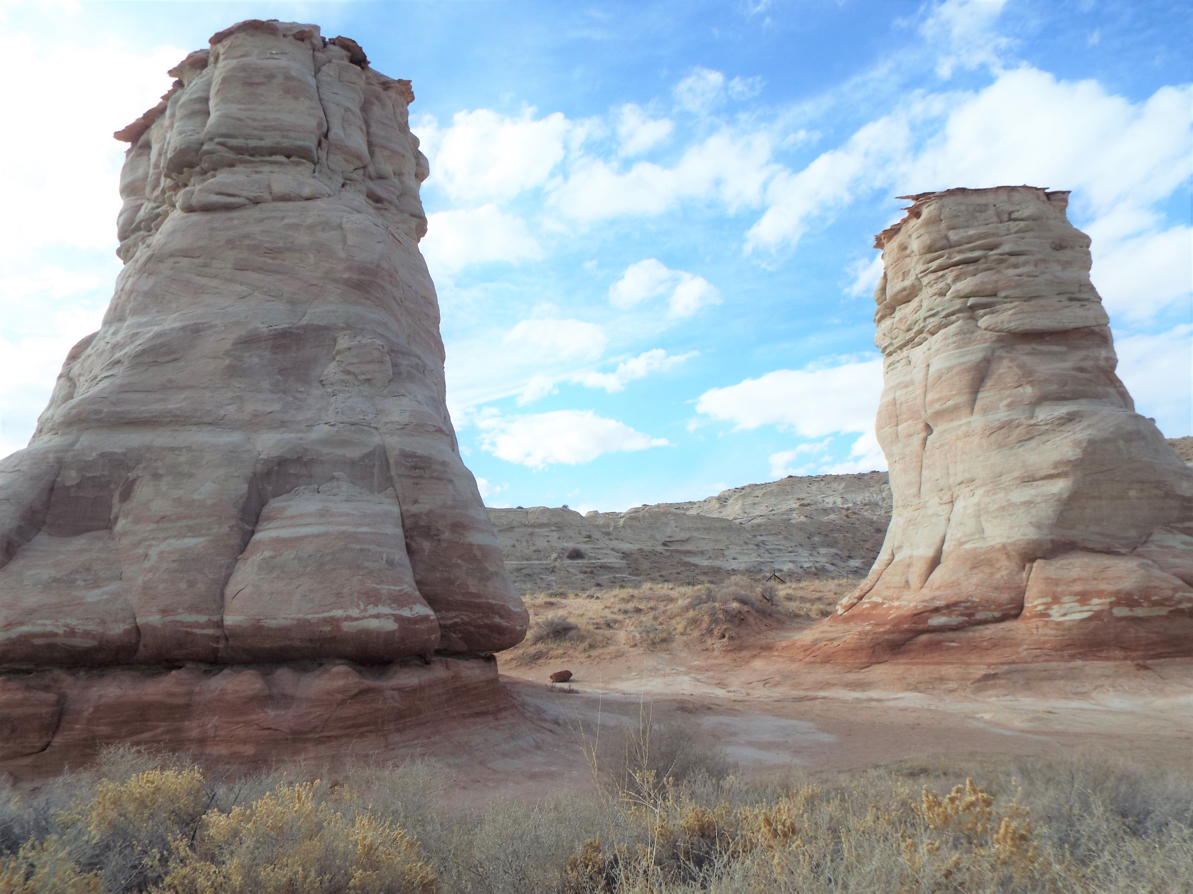 Two earth mounds in Tonalea, Aruizona commonlllly known as "Elephant Feet"